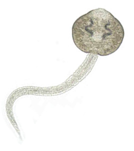 The cercaria of Fascioloides magna